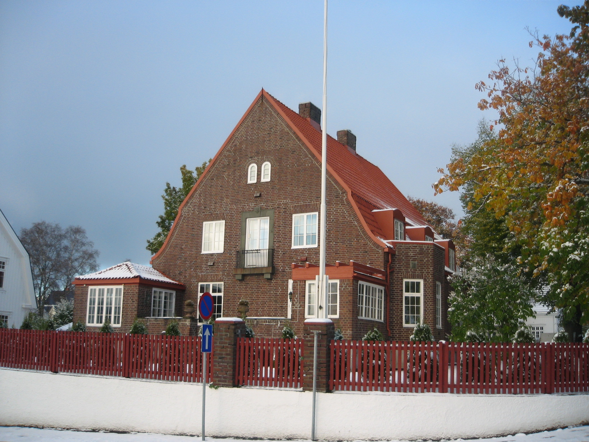 Villa in Øvre allé 12, Trondheim, erected in 1916-17. The villa was commissioned by E.C. Bull Simonsen and designed by the architect Sverre Pedersen. From 1922 onwards the villa was home to the head of the military district command in Trøndelag. Today it is a privat home